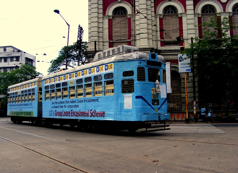 Uploaded to wiki by Nikhil Kulkarni